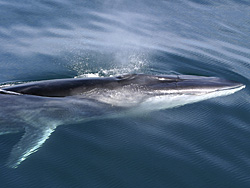 Fin Whale (Balaenoptera physalus) photographed in the Kenai Fjords near Resurrection Bay, Alaska.